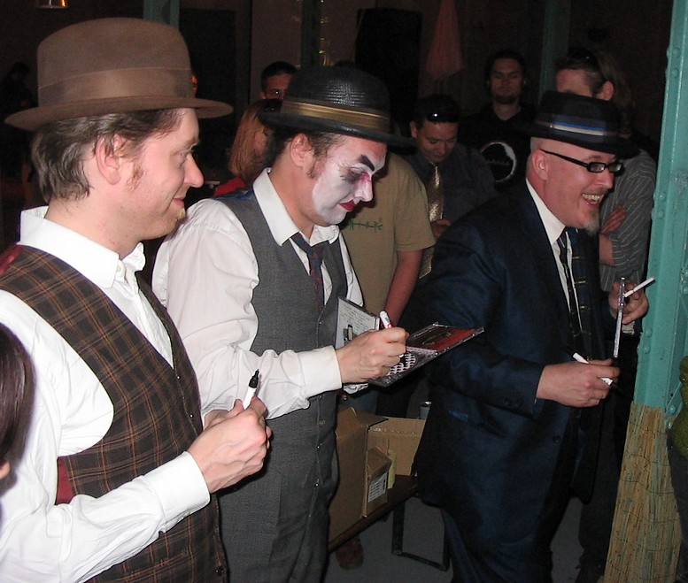 The band's members giving autographs after the concert (Prague, May 2005)